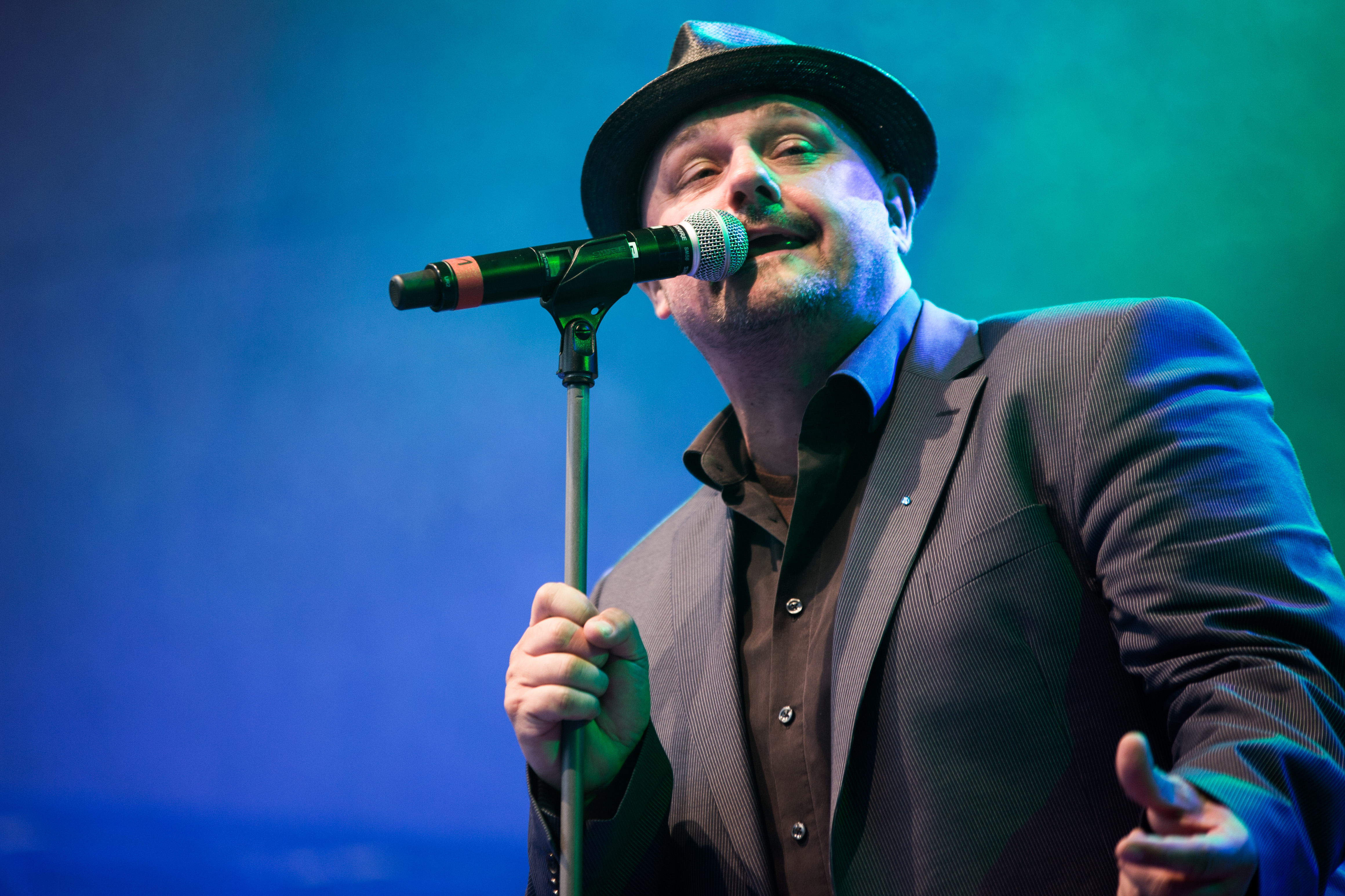 Water is Right TTF.Rudolstadt 2014 Festivalsommer This photo was created with the support of donations to Wikimedia Deutschland in the context of the CPB project "Festival Summer".